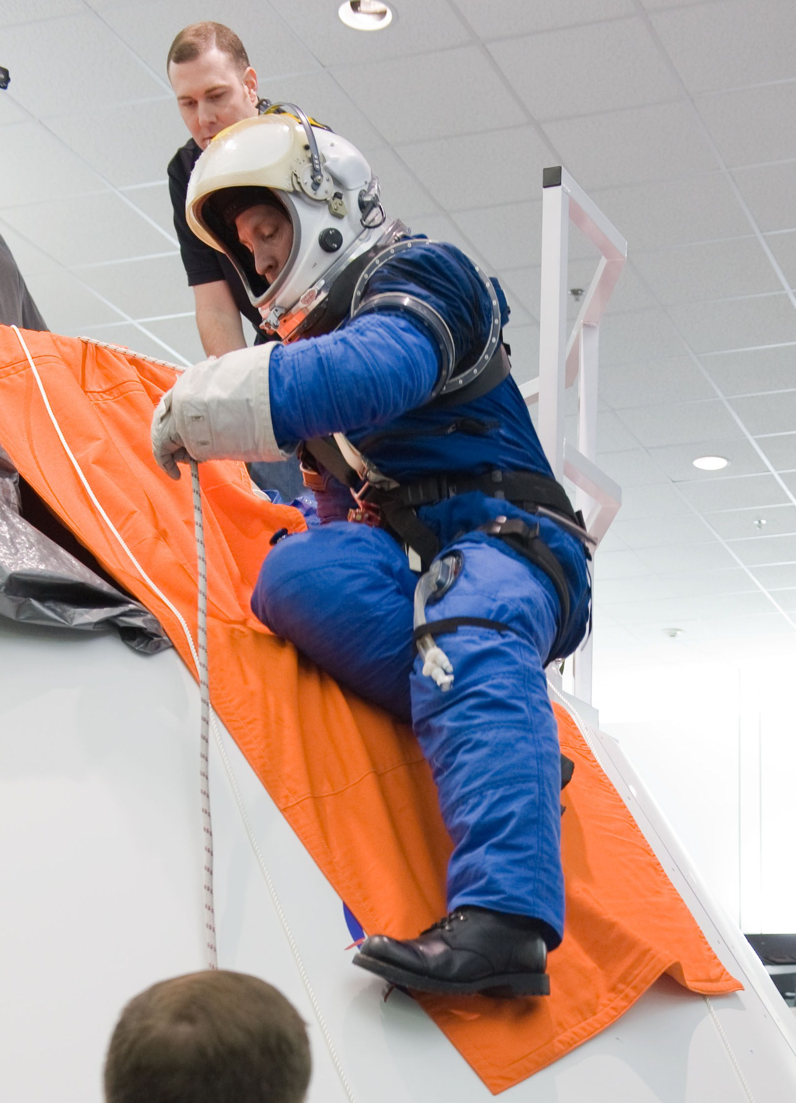 JSC2010-E-026958 (26 Feb. 2010) --- Emergency crew escape evaluations are conducted at the Lockheed Martin Exploration Development Lab in Houston, Texas. In the event of an inoperable side hatch after splashdown, the crew must exit the Orion crew exploration vehicle through the docking port located at the top of the spacecraft.